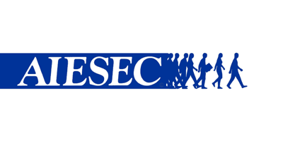 AIESEC logo. Short version, blue on white (derived from official image)